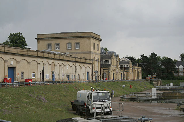 Hampton Waterworks Part of the extensive installations built by the Metropolitan Water Board to satisfy the increasing demand of 19th century London, these works are still very much in use, operated by Thames Water. The old buildings now house much more modern equipment than that originally installed.